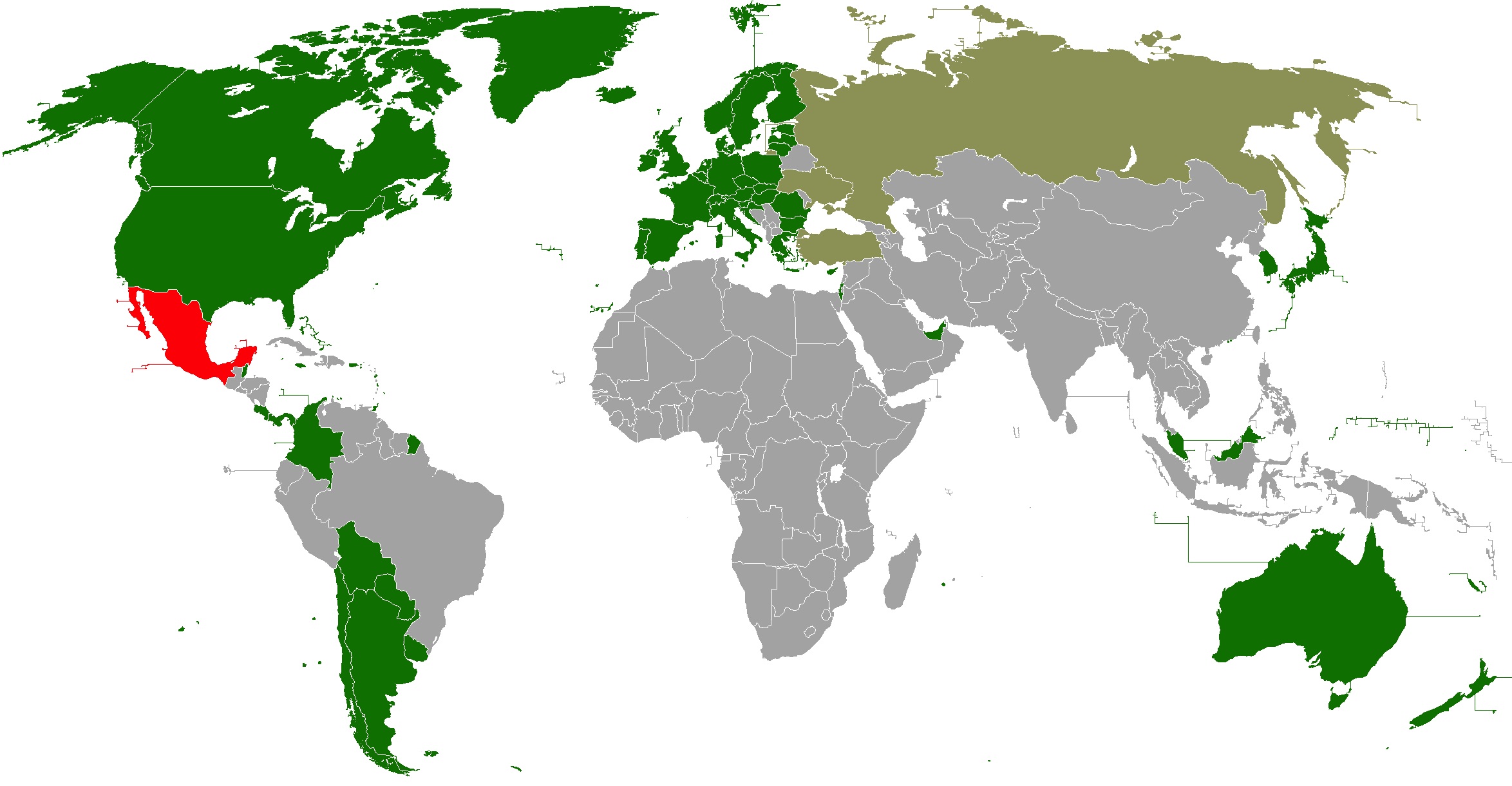 Visa policy of Mexico Mexico Visa-free access Electronic authorization